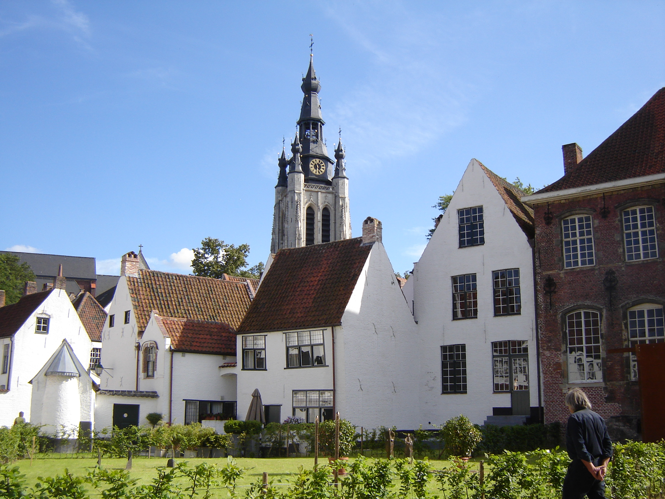 Beguinage, and church of Saint Martin in Kortrijk, West Flanders, Belgium.